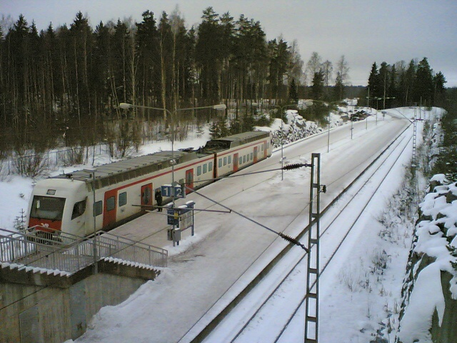 An Sm4 train at the Vantaankoski railway station.